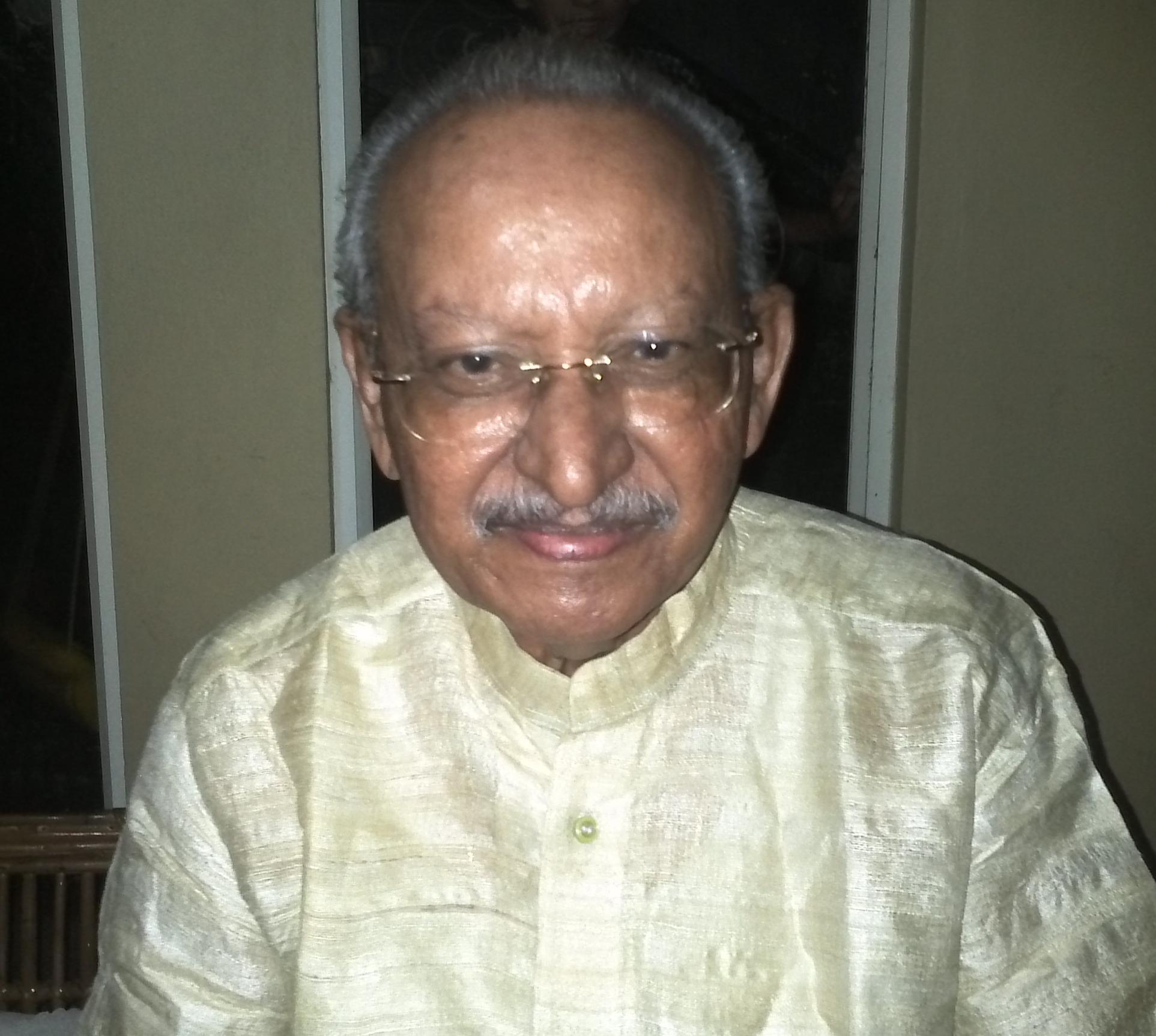 Picture of cartoonist Yesudasan (c.j.yesudass), taken at his residence, soon after a get together with neighbours as part of his 75 year celebration.